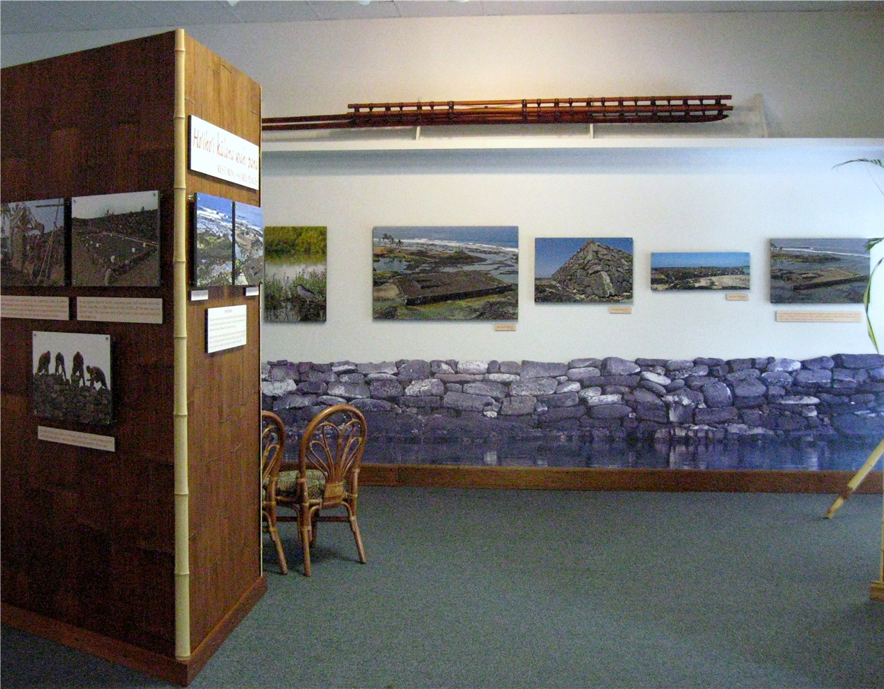 A small museum about local history in the Keauhou, Hawaii shopping center.